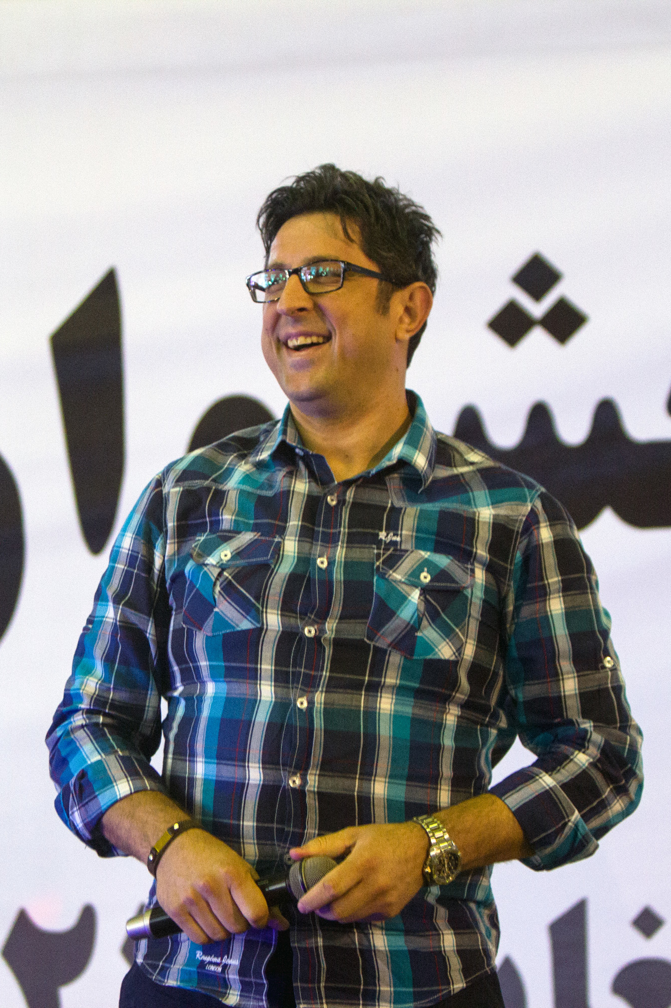 Shahab Abbasi is an Iranian theater and cinema actor. تۆرکجه: شهاب عباسی (۹ آذر ۱۳۵۲، تبریز) ایرانلی سینما ، تئاتر و تیلویزیون اوْیونجوسودور.